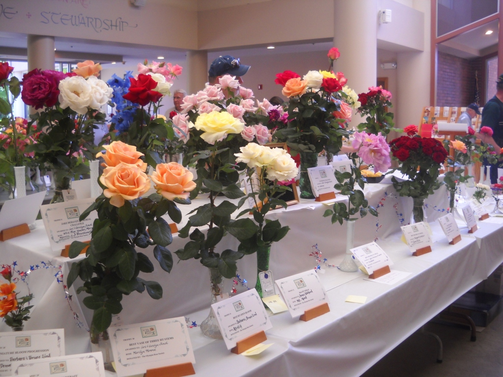 The trophy winners at a local rose show (ARS affiliate).